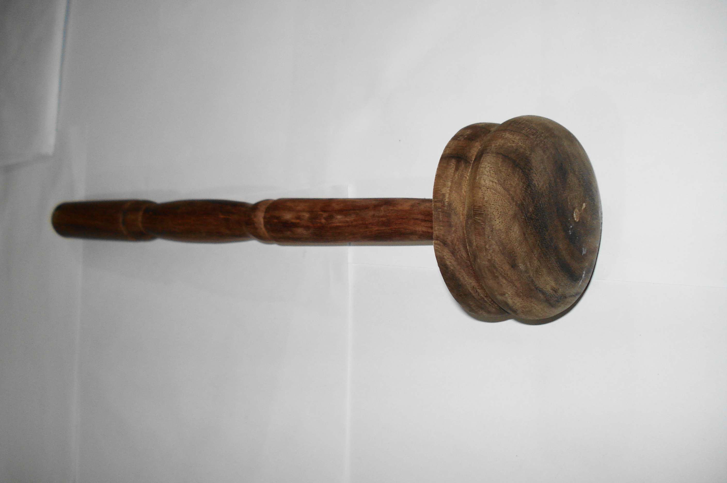 Gotni is a hand masher used for making smooth texture of many dishes like Haleem , Sarsoon Ka Saag and Sindhi Sai Bhaji